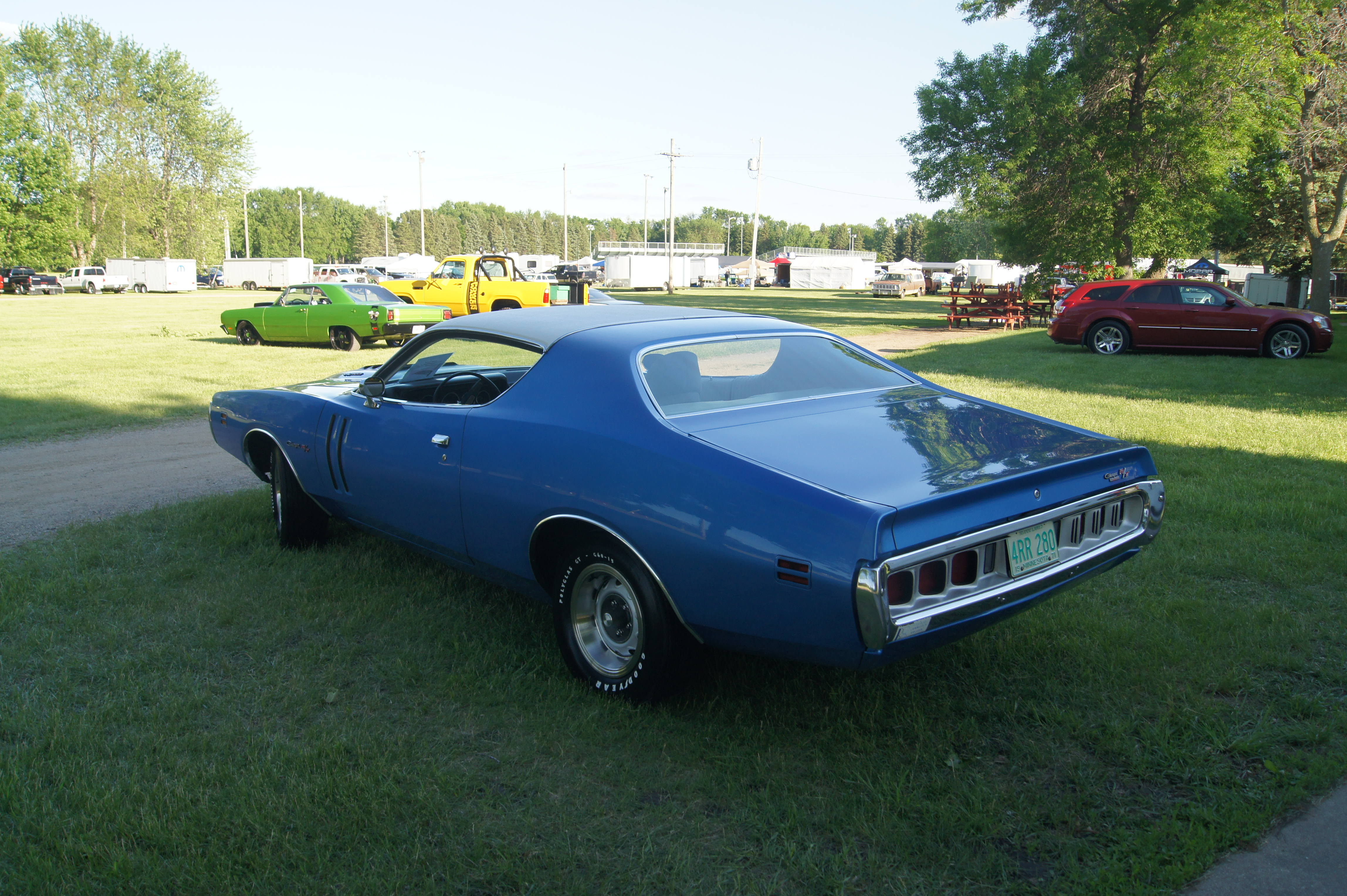 Midwest Mopars in the Park National Car Show & Swap Meet Dakota County Fairgrounds Farmington, Minnesota May 30 & 31, 2015 Click here for more car pictures at my Flickr site.